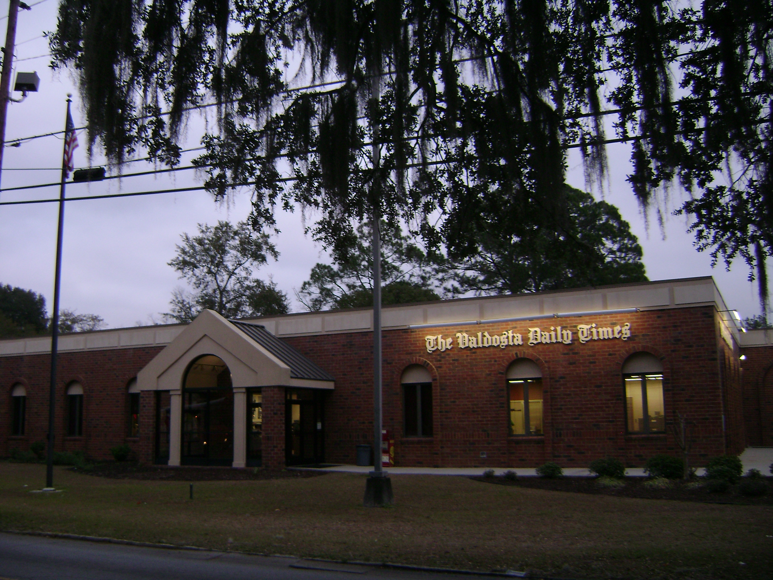 Valdosta Daily Times lit up on an overcast afternoon